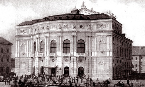 The old theatre building of Szeged, before the fire accident